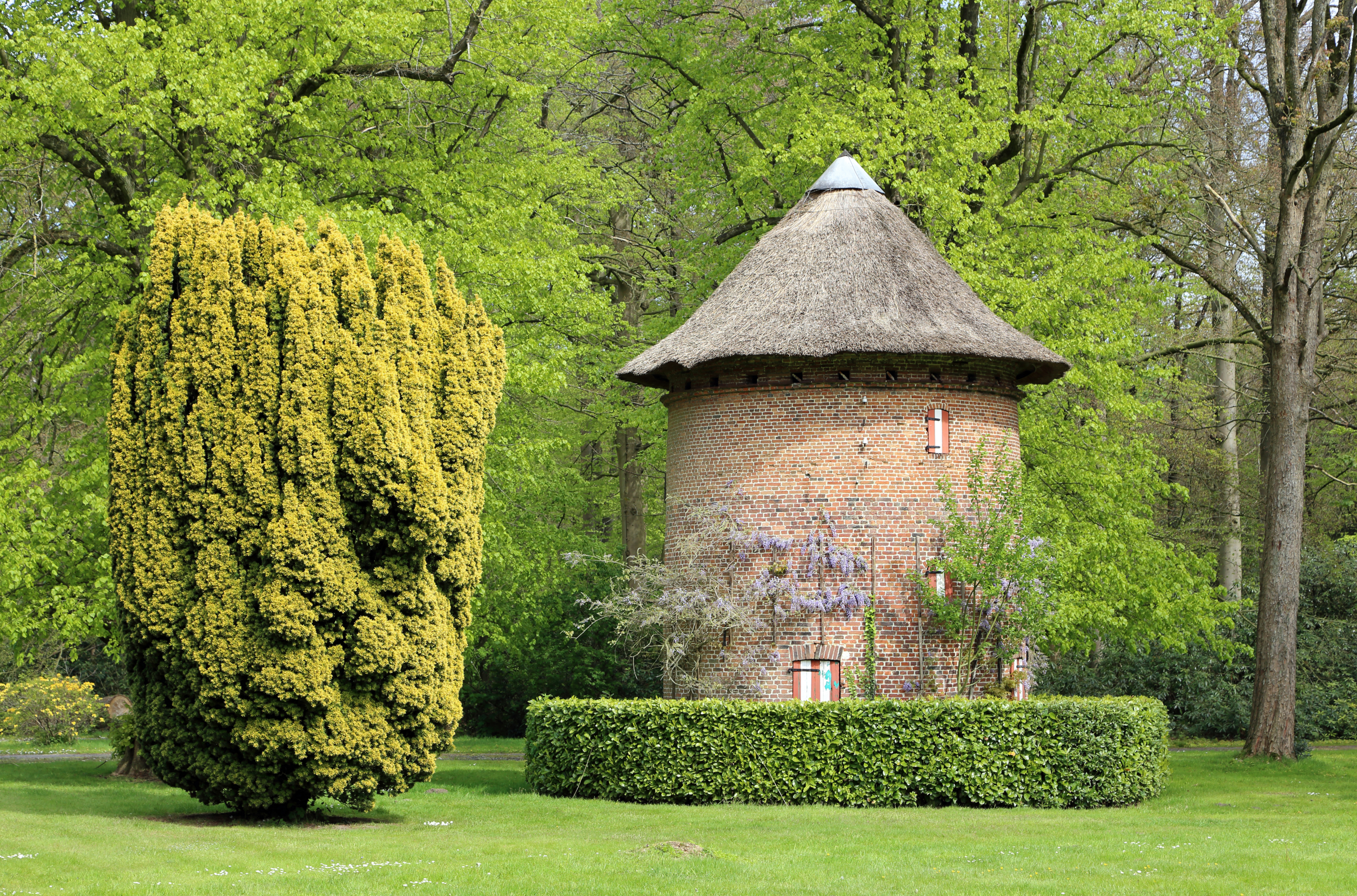 Maria-Aalter (municipality of Aalter, province of East Flanders, Belgium): Blekkervijver castle - the pigeon house